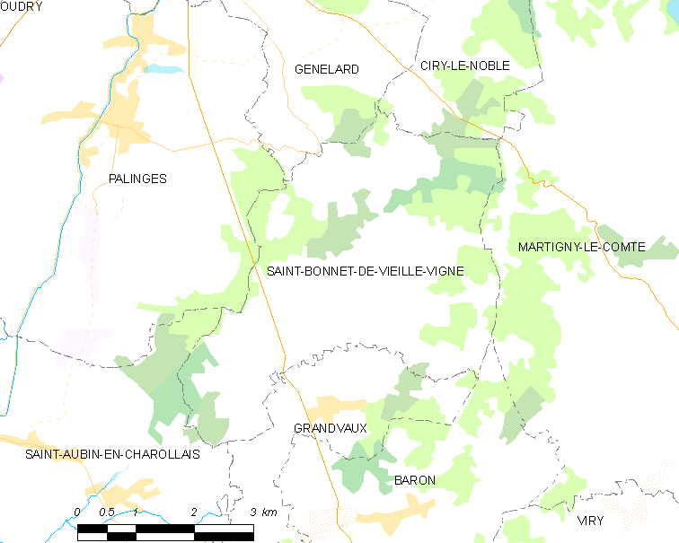 Map of French municipality